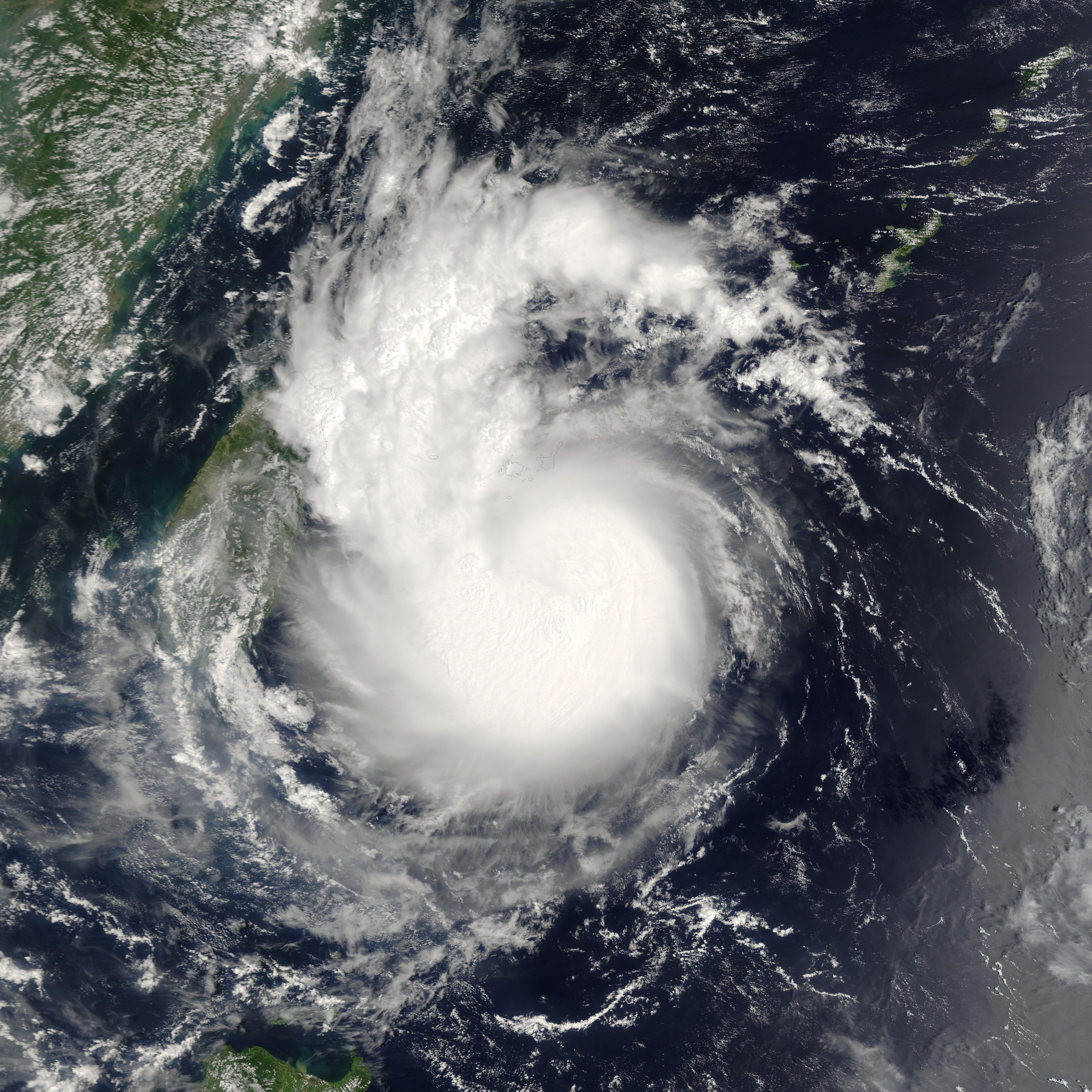 As the nearby storm Saomai crossed the threshold to typhoon status, a tropical depression formed in the same general area, reaching storm status on August 7, at which point it was named Bopha. As of August 9, Bopha and Saomai were both heading roughly west, with Bopha projected to pass directly over Taiwan, while Saomai was projected to pass north of the island before making landfall on the Asian mainland. This photo-like image was acquired by the Moderate Resolution Imaging Spectroradiometer (MODIS) on the Terra satellite on August 9, 2006, at 10:05 a.m. local time (02:05 UTC). Bopha had developed a strong cyclonic shape, and although the storm system does not have a well-developed eye, the “boiling” clouds around the center suggest thunderstorm activity. At the time of this image, Bopha had sustained peak winds of roughly 82 kilometers per hour (52 miles per hour) according to the University of Hawaii’s Tropical Storm Information Center. The high-resolution image provided above is provided at the full MODIS spatial resolution (level of detail) of 250 meters per pixel. The MODIS Rapid Response System provides this image at additional resolutions.